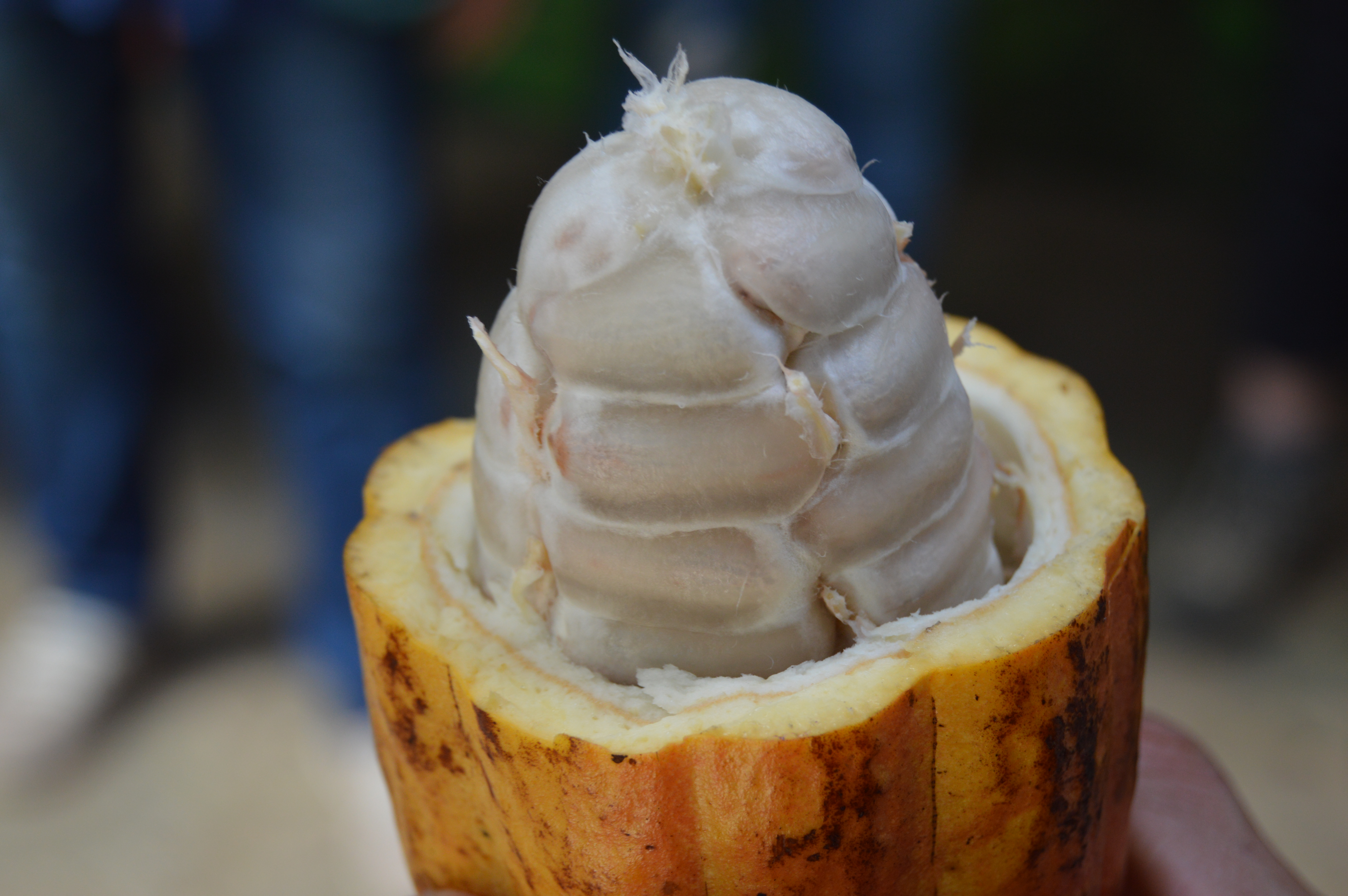 Cocoa beans in cocoa pod at El Trapiche in Costa Rica